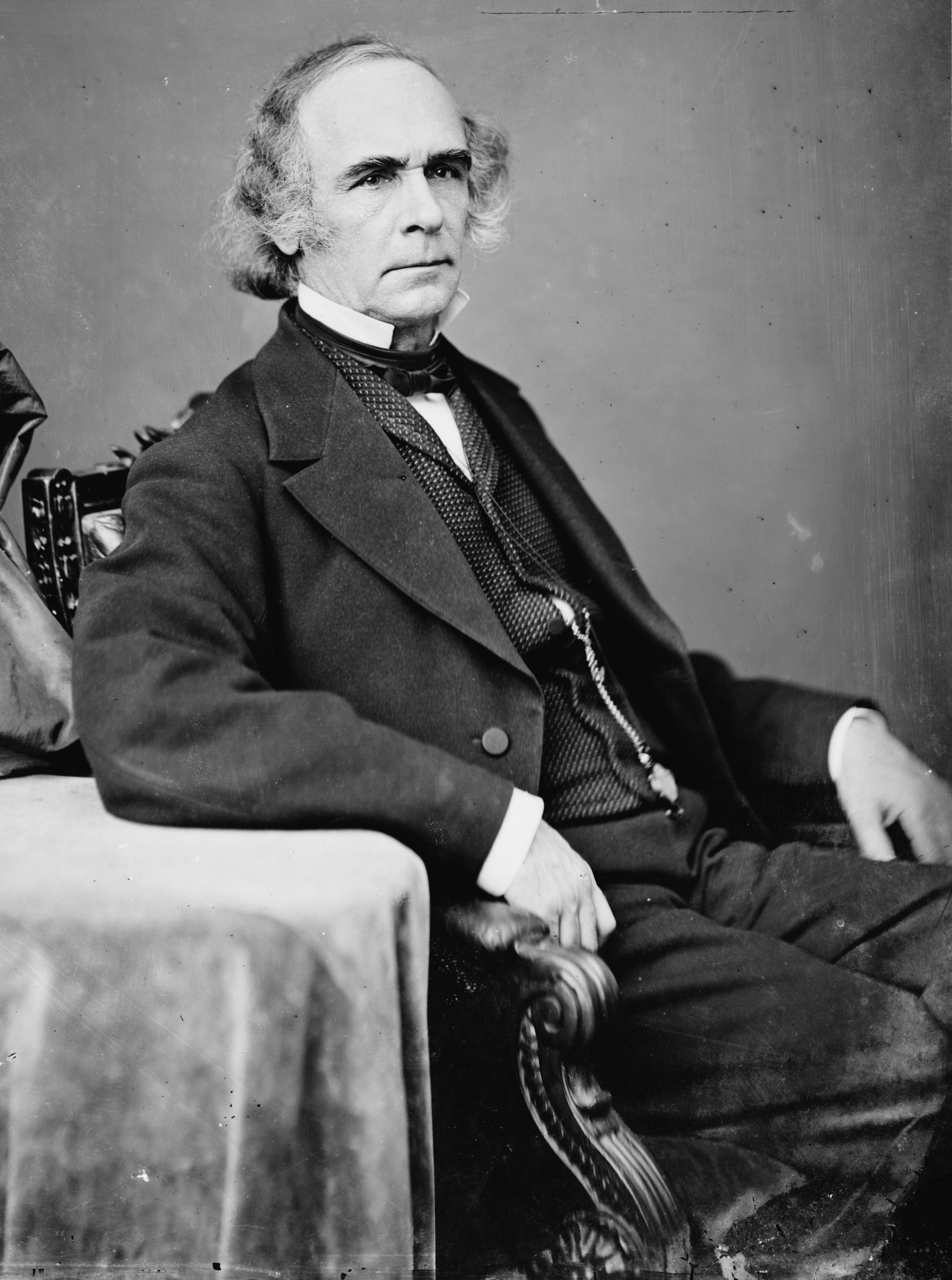 Washington Townsend. Library of Congress description: "Hon. Washington Townsend of Pa."